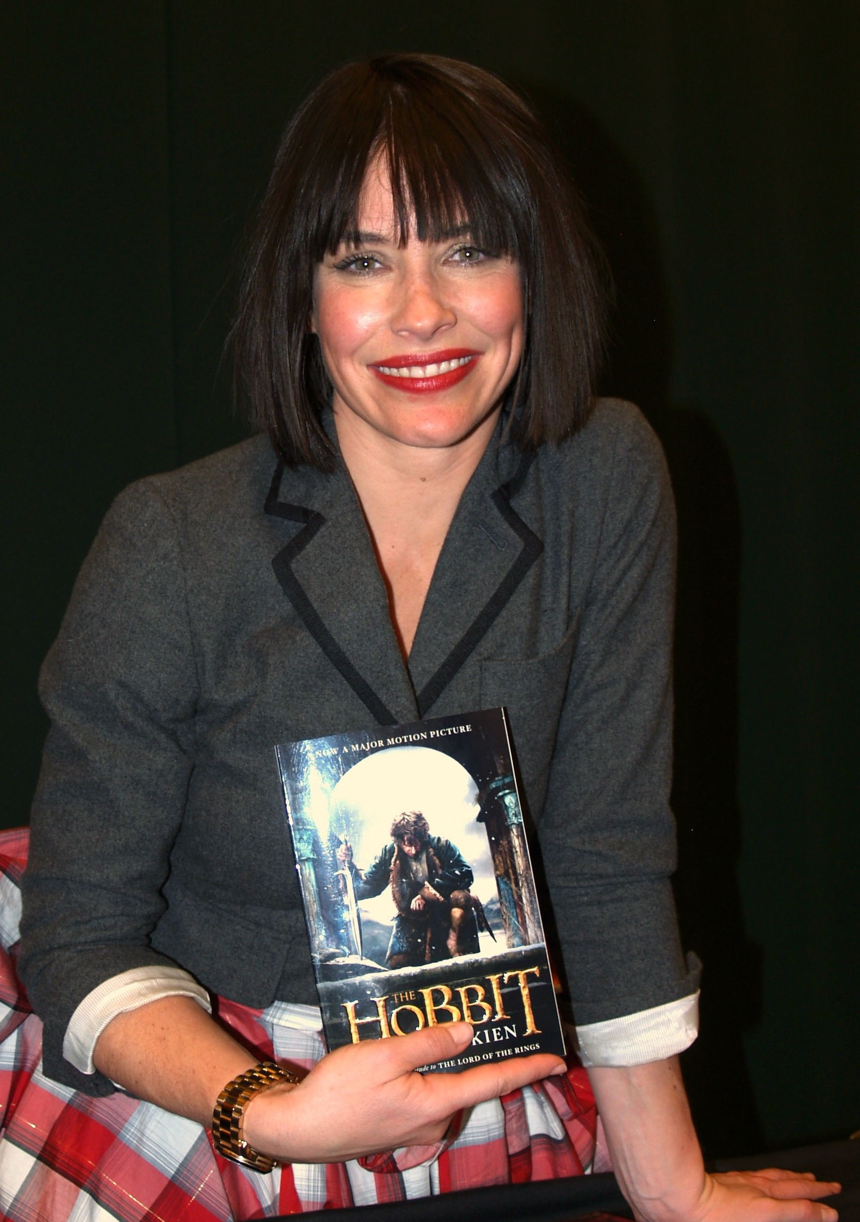 Actress Evangeline Lilly at the Barnes & Noble in Tribeca, Manhattan for a November 17, 2014 signing of the first volume of her children's book, The Squickerwonkers. In the photo, Lilly is holding a copy of J.R.R. Tolkien's novel, The Hobbit. Lilly, who became a fan of Tolkien when she was a teenager, plays Tauriel in the feature film adaptation of The Hobbit. This photo was created by Luigi Novi. It is not in the public domain, and use of this file outside of the licensing terms is a copyright violation.